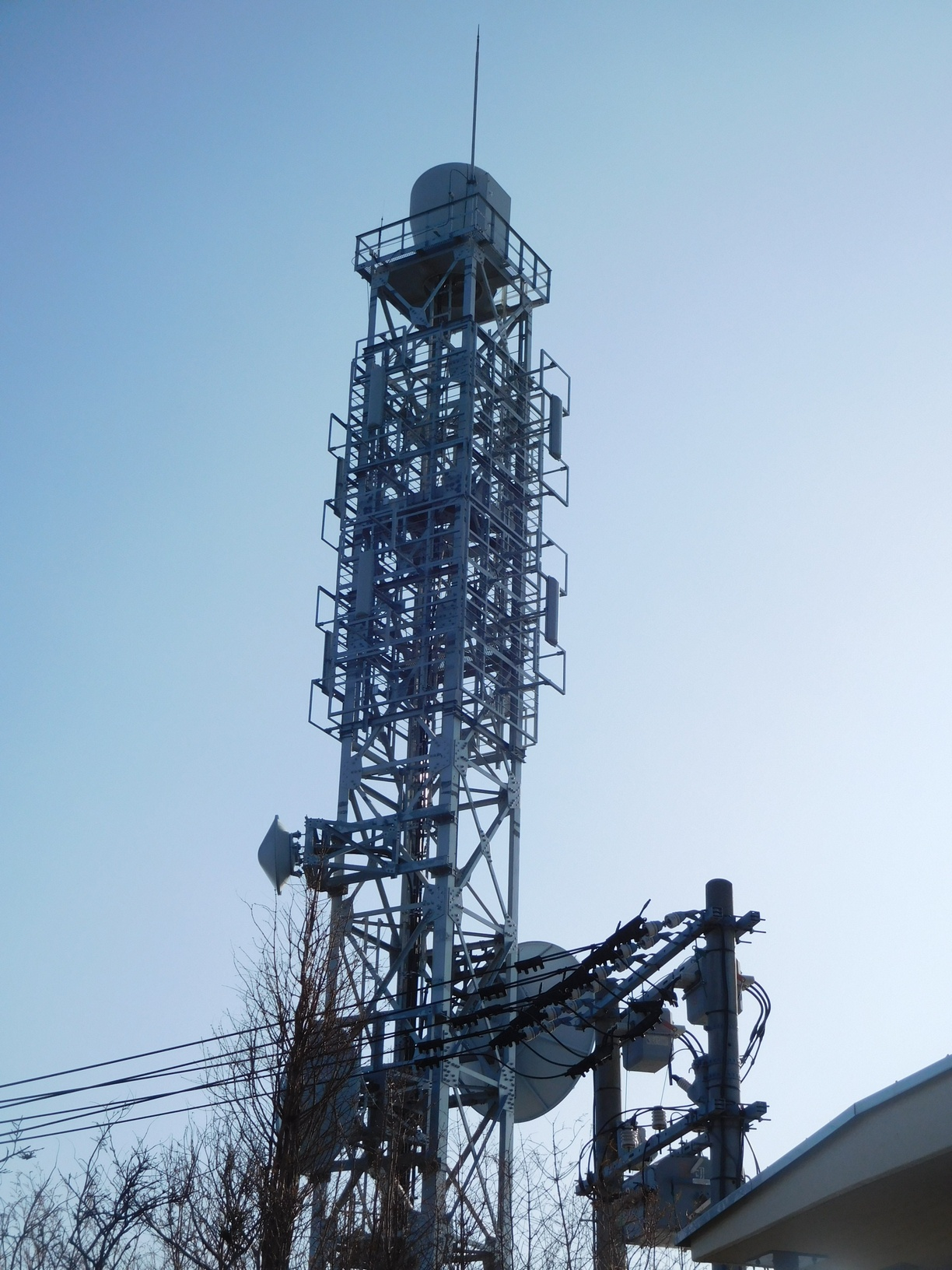 NHK Kumamoto FM Radio (JOGK-FM) Kinbo-zan (Kumamoto) Transmitting Tower in 2015 (85.4MHz, Kumamoto City, Japan)